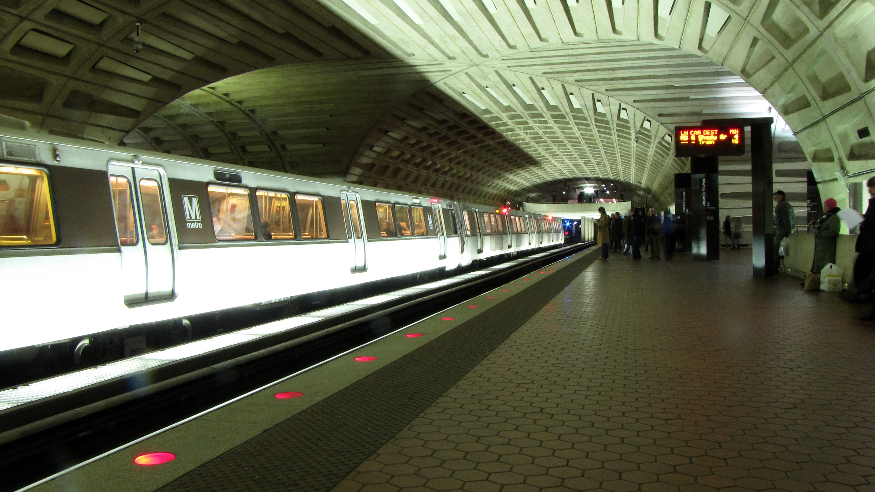 Metro Center station, seen from Shady Grove platform, with train on Glenmont track. Eight-second long exposure photo.